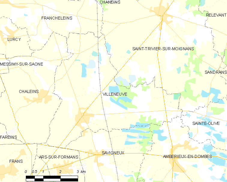 Map of French commune: Villeneuve Map commune FR insee code 01446.png